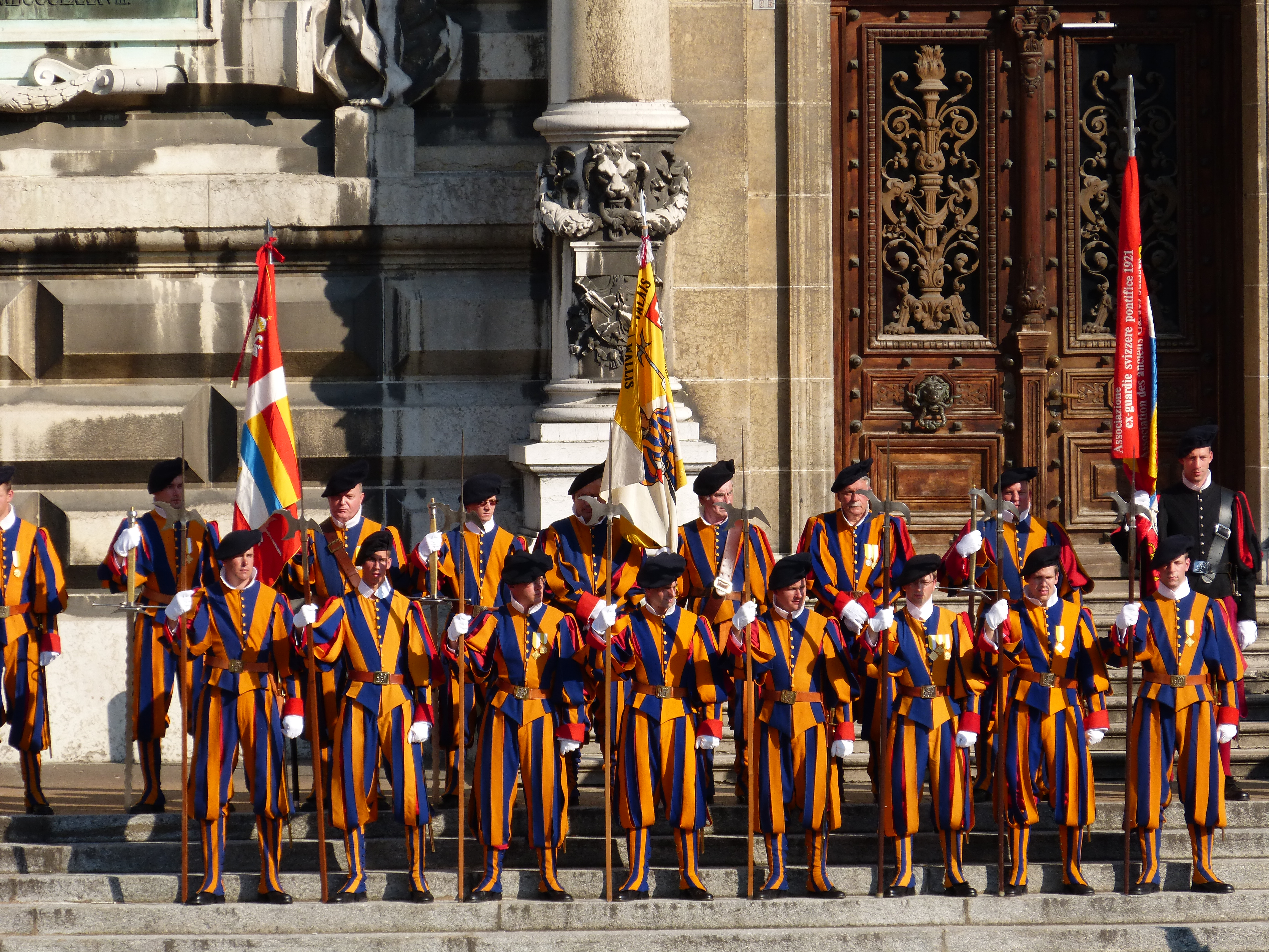 Former Pontifical Swiss Guards on the stairs of the forecourt of Palais de Rumine.